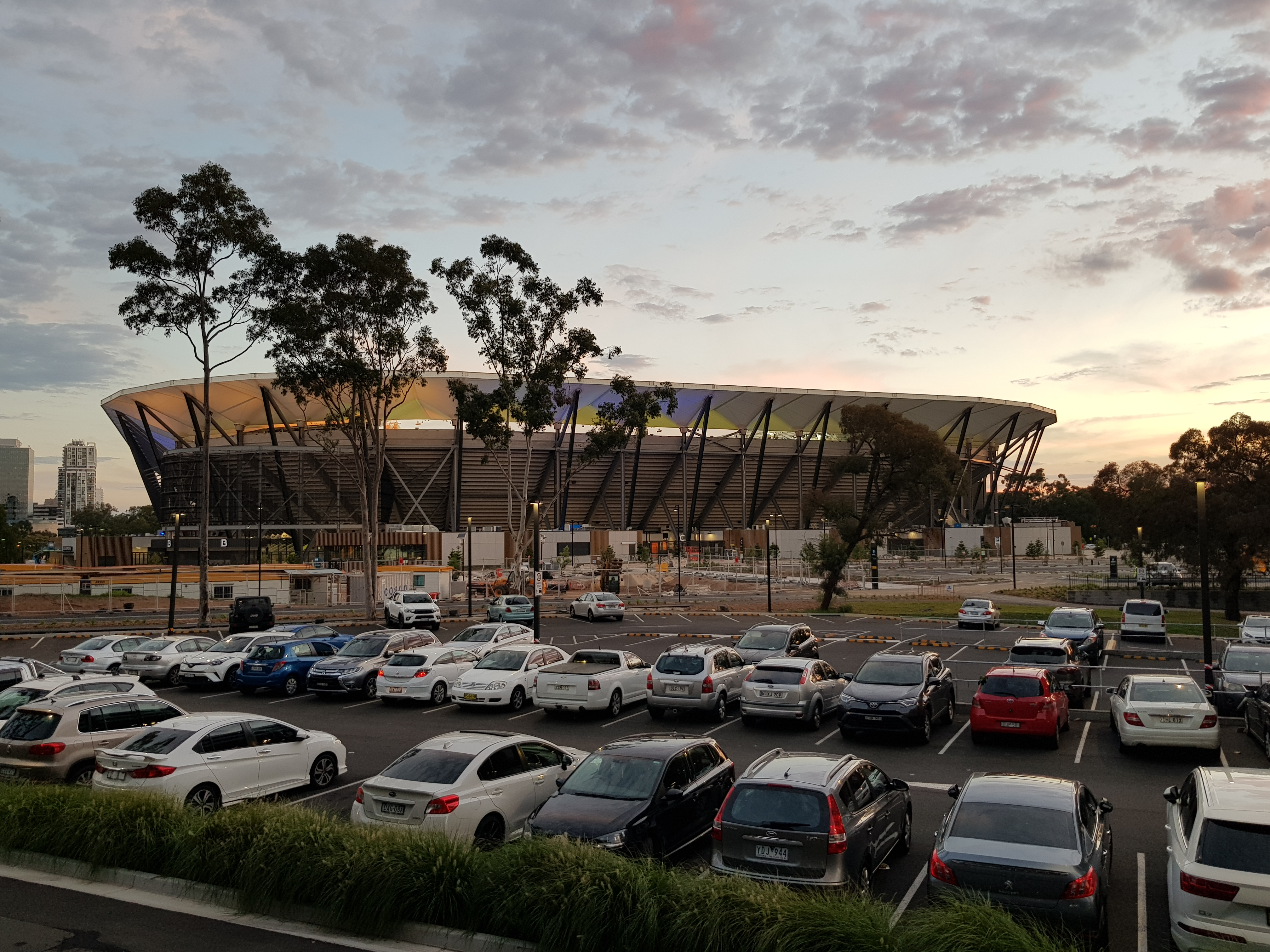 BankWest Stadium in April 2019, taken from the Parramatta Leagues Club building.